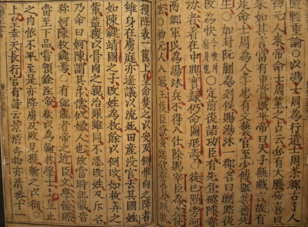 At first, when the Yuan raided, many members of the nobility and officials sent gifts to the enemy camp. Later when the bandits had been defeated, a box of declarations of surrender was obtained, but the emperor ordered it burned so as to calm those who had violated. However, as for those who had surrendered [directly to the Mongols], even though they were now at the enemy court, they were condemned to death in absentia, their property was confiscated, they were stripped of their official positions, and their royal surname was changed. Trần Kiện, for instance, the son of [Prince] Tĩnh Quốc, had his surname changed to Mai... Given that Ích Tắc was a close blood relative, although the punishment for his crime was the same, [the emperor] could not bear to change his surname, and dismiss his name, so [the emperor] ordered that [Ích Tắc] be called Ả Trần, to say that he was soft and weak like a woman. Therefore, records at that time referred to them as Ả Trần and Mai Kiện.